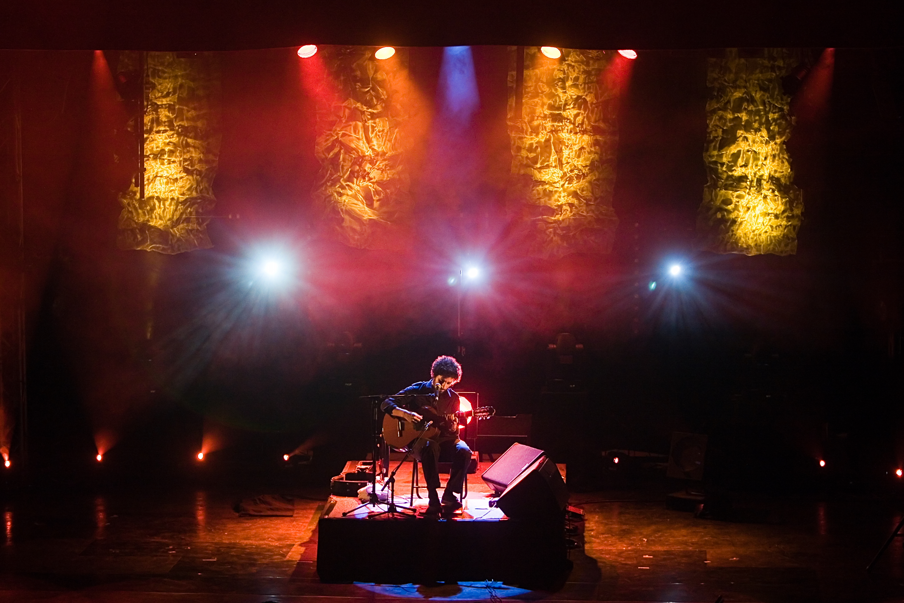 José Gonzales at La Route du Rock 2008